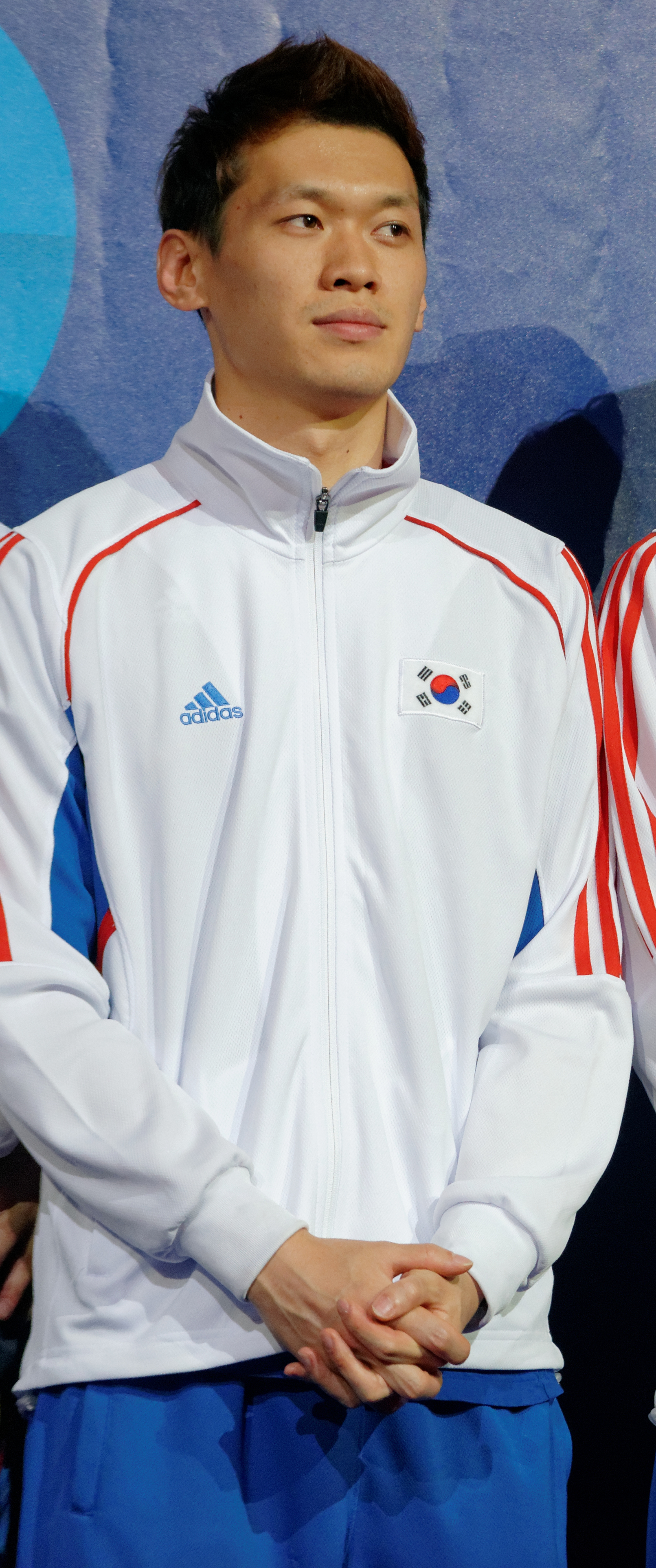 Korea men's sabre team (Gu Bon-gil, Kim Jung-hwan, Oh Eun-seok, Won Jun-ho) stand on the podium of the 2013 World Fencing Championships 2013 at Syma Hall in Budapest, 10 August 2013.